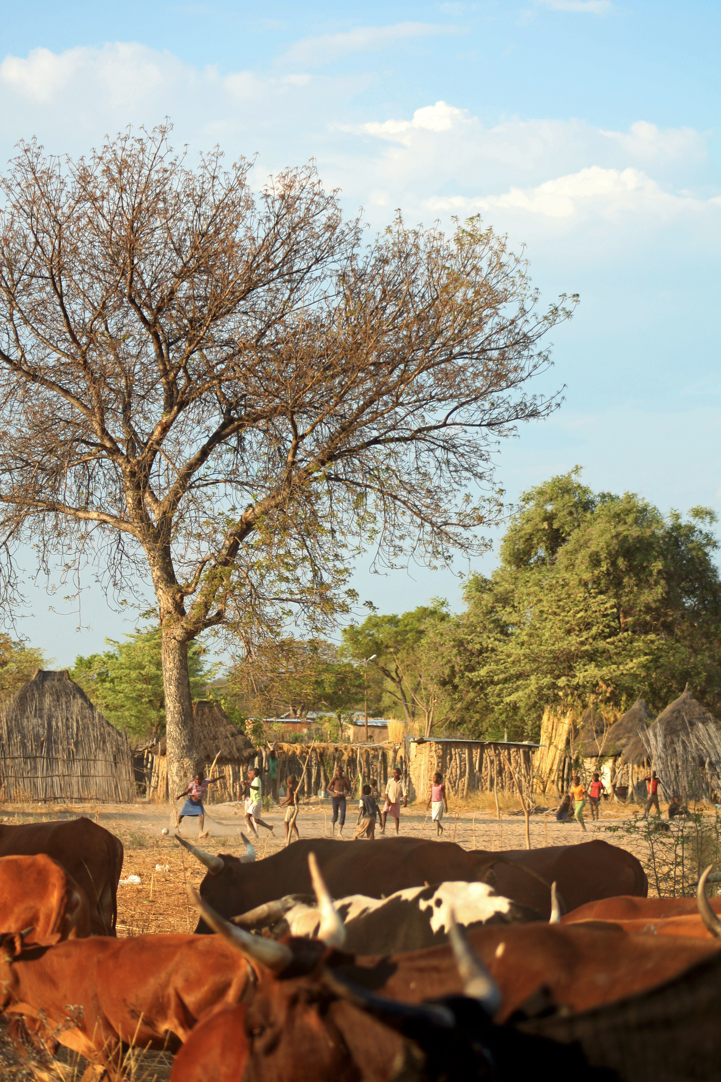 A favourite pastime the world over is playing football. This is also true for village kids who couldn't be bothered by the herd of cows that passes by their football pitch. This photo was captured during a documentary shoot in late 2008. This is an image with the theme "Africa on the Move or Transport" from: Namibia